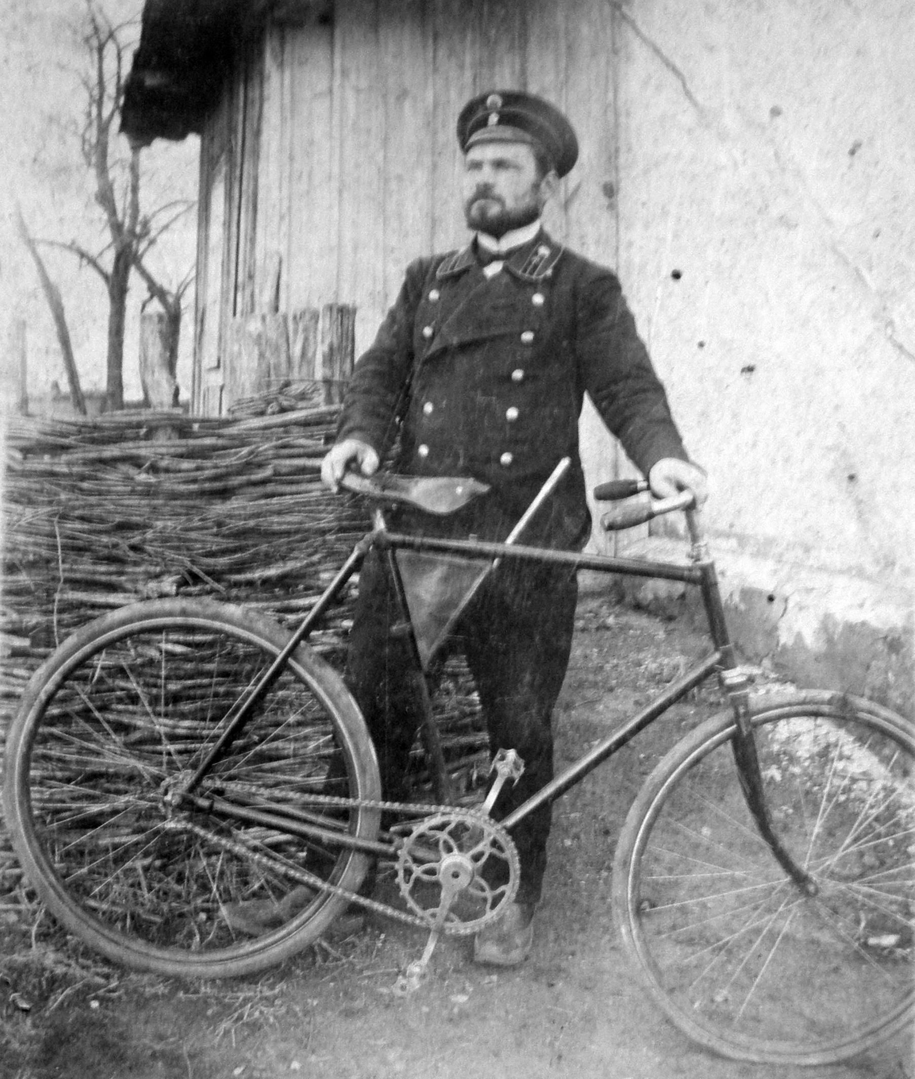 Borzna Postmaster Mihajlo Homenko, 1916